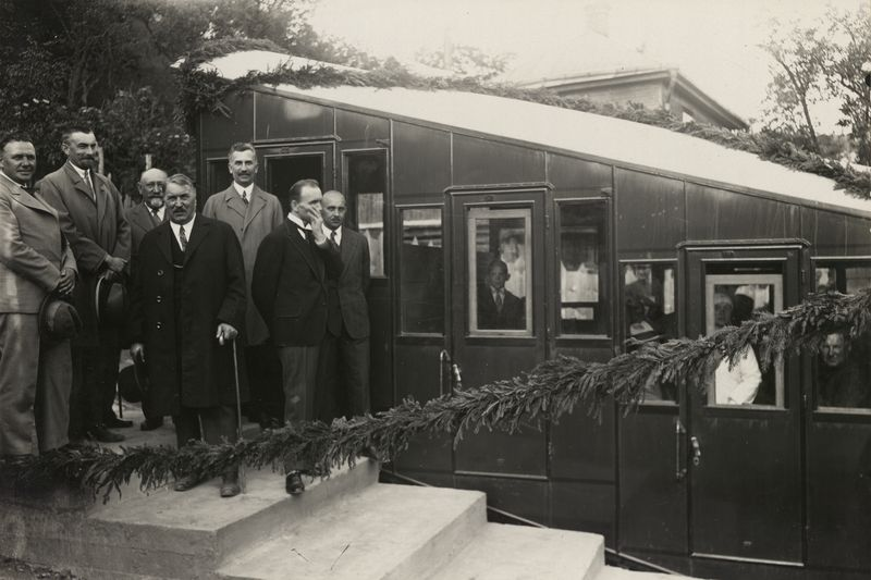 Opening ceremony of Žaliakalnis Funicular Railway. President Antanas Smetona attended the opening ceremony, however he is not visible in this picture.